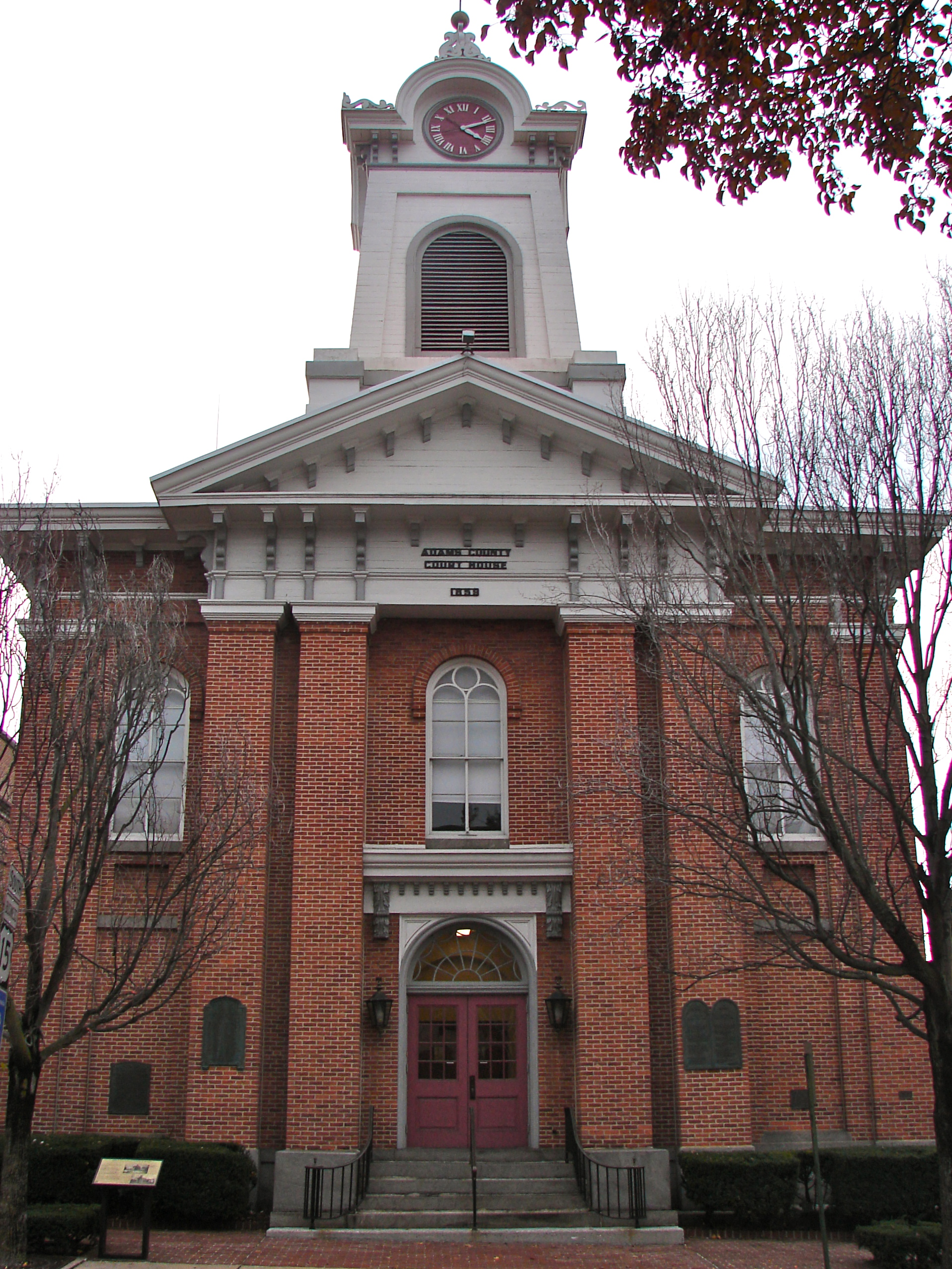 Adams County Courthouse on the NRHP since October 1, 1974. At Baltimore and West Middle Streets in Gettysburg, Pennsylvania.